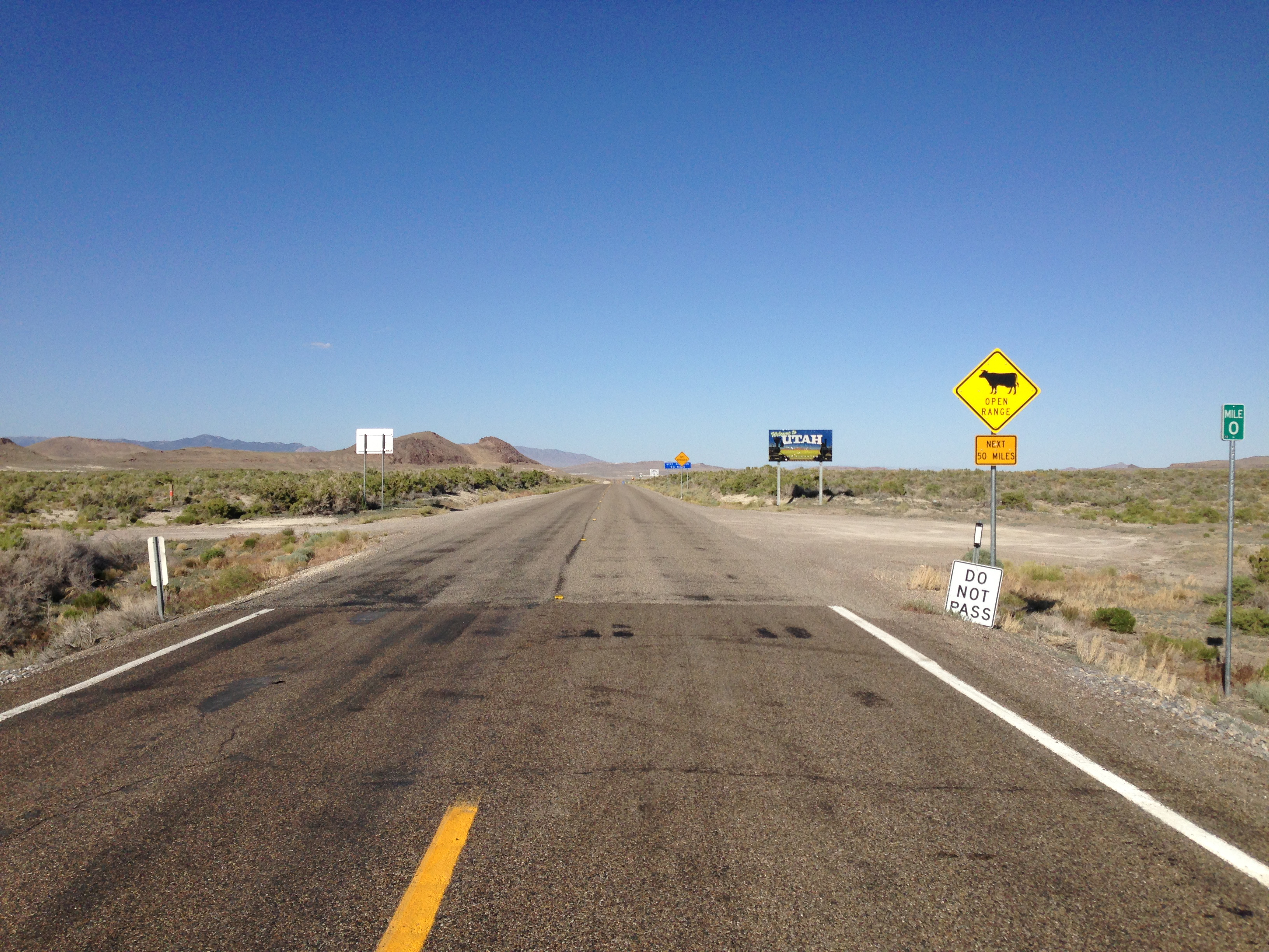 View northeast from the north end of Nevada State Route 233 (Montello Road) and the west end of Utah State Route 30